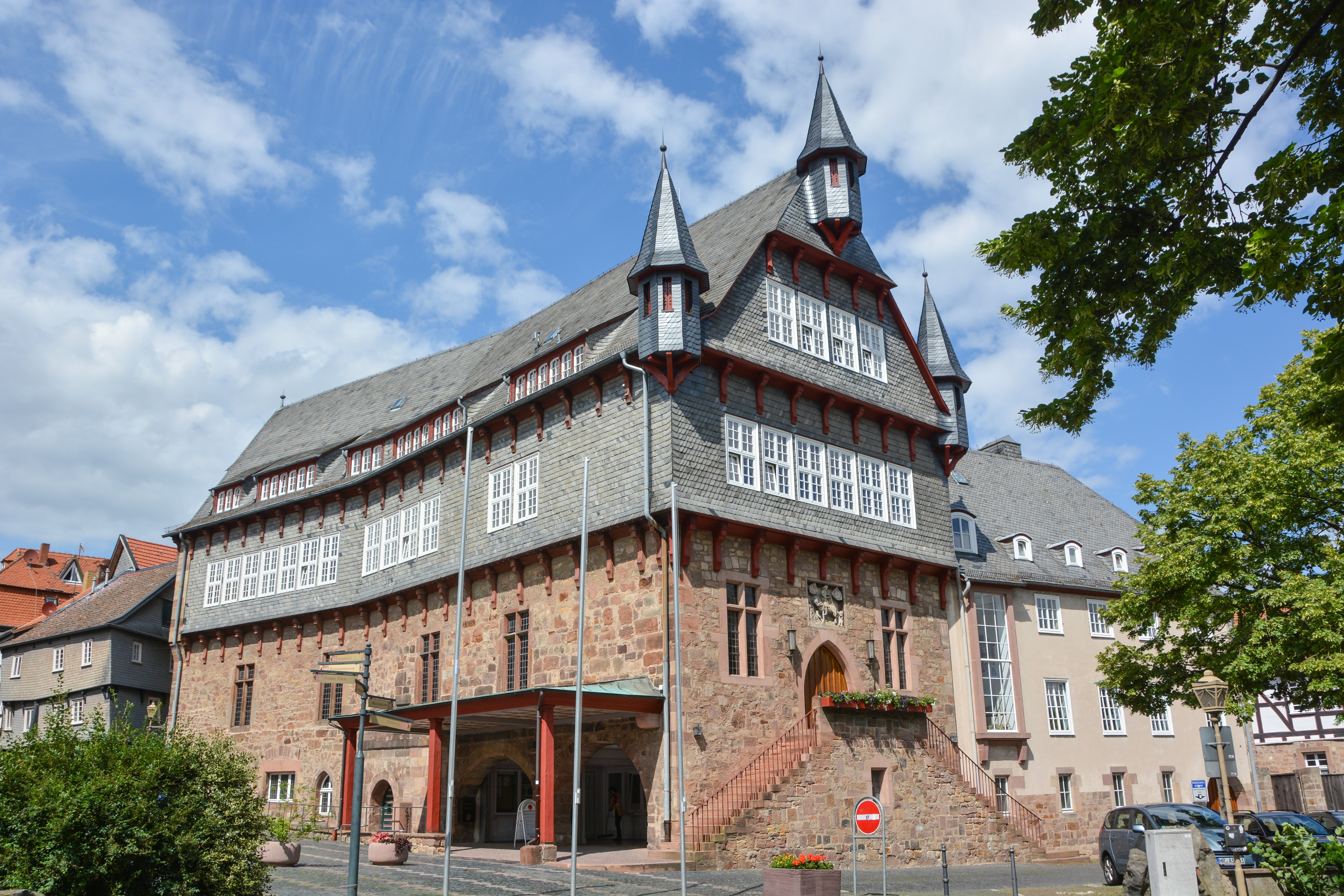 Town hall of Fritzlar, Hesse, Germany, view from southwest